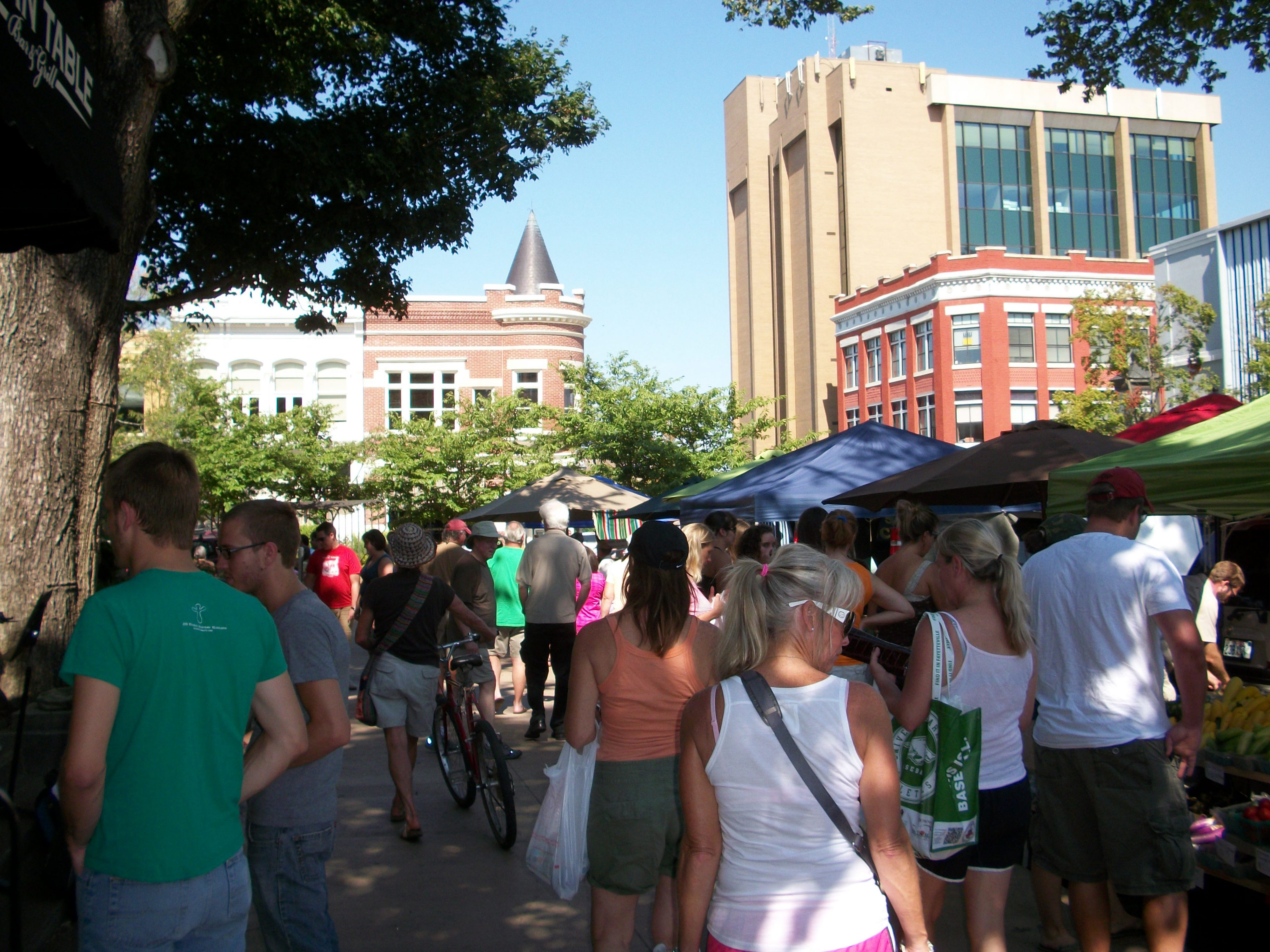 Fayetteville Farmer's Market on the Fayetteville Historic Square with the Old Bank of Fayetteville Building, Lewis Brothers Building, and Mrs. Young Building all visible in the background.